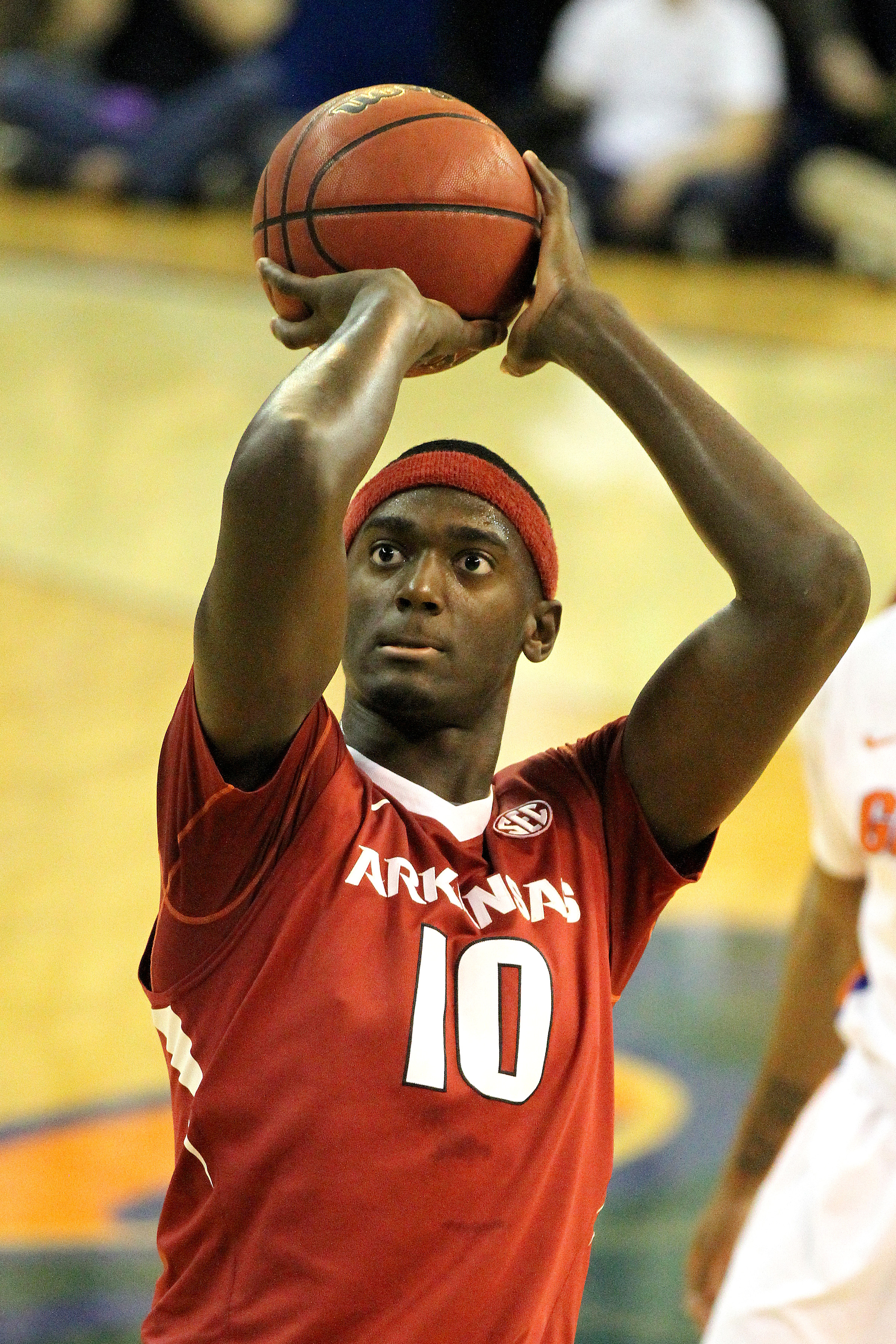 Bobby Portis